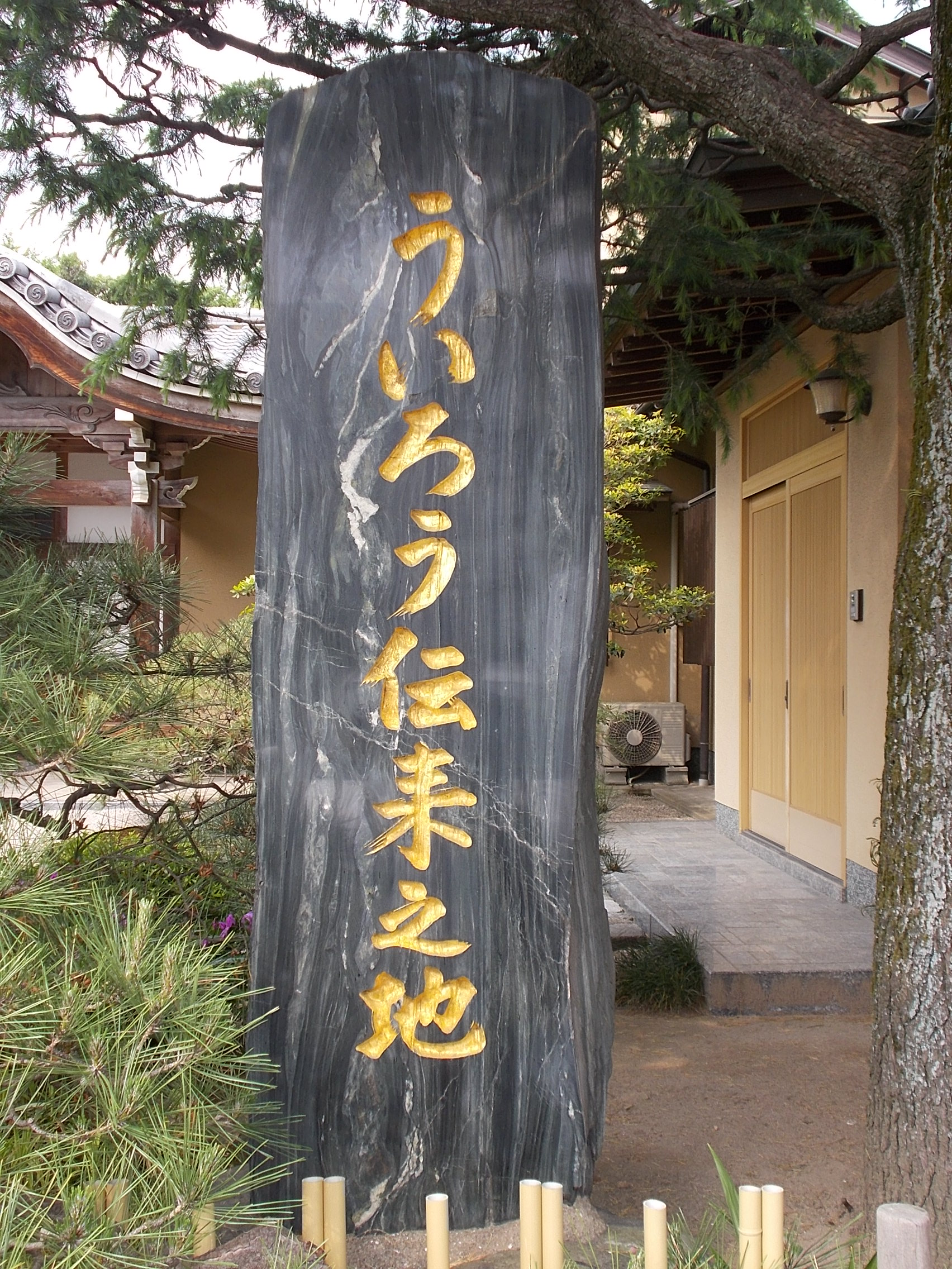 The Stone Monument commemorating the birth of Uiro, a traditional Japanese medicine at Myoraku-ji Temple, Hakata-ku, Fukuoka, Japan